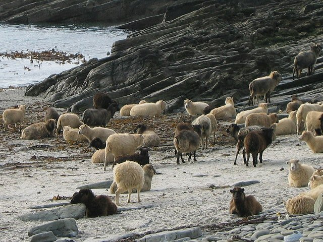 North Ronaldsay sheep. The sheep are a rare breed which has evolved to eat seaweed. All access to the shore is fenced to stop them getting onto pastures as their digestive systems cannot cope with grass, due to the high copper content.